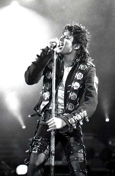 Michael Jackson 2nd June 1988. "Wiener Stadion" venue in Vienna, Austria.